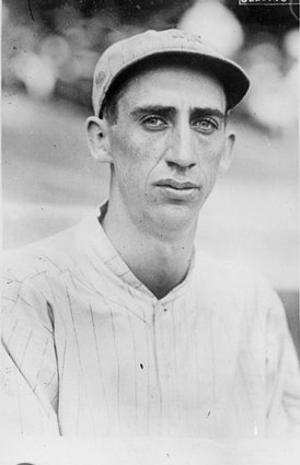 Picture of Pol Perritt